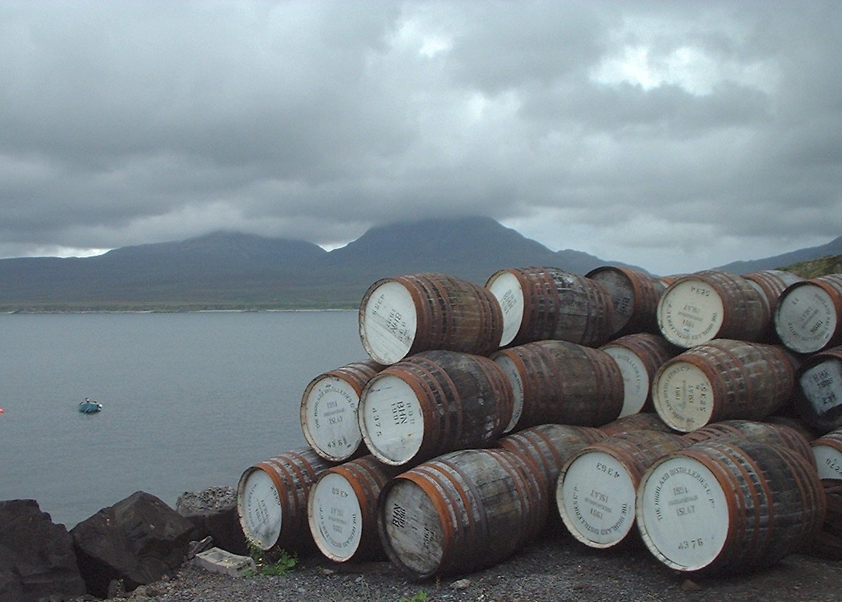 Empty casks outside Bunnahabhain distillery, looking across the Sound of Islay towards the Paps of Jura, shrouded in cloud. Photographed by James Gray, 5th August 2001